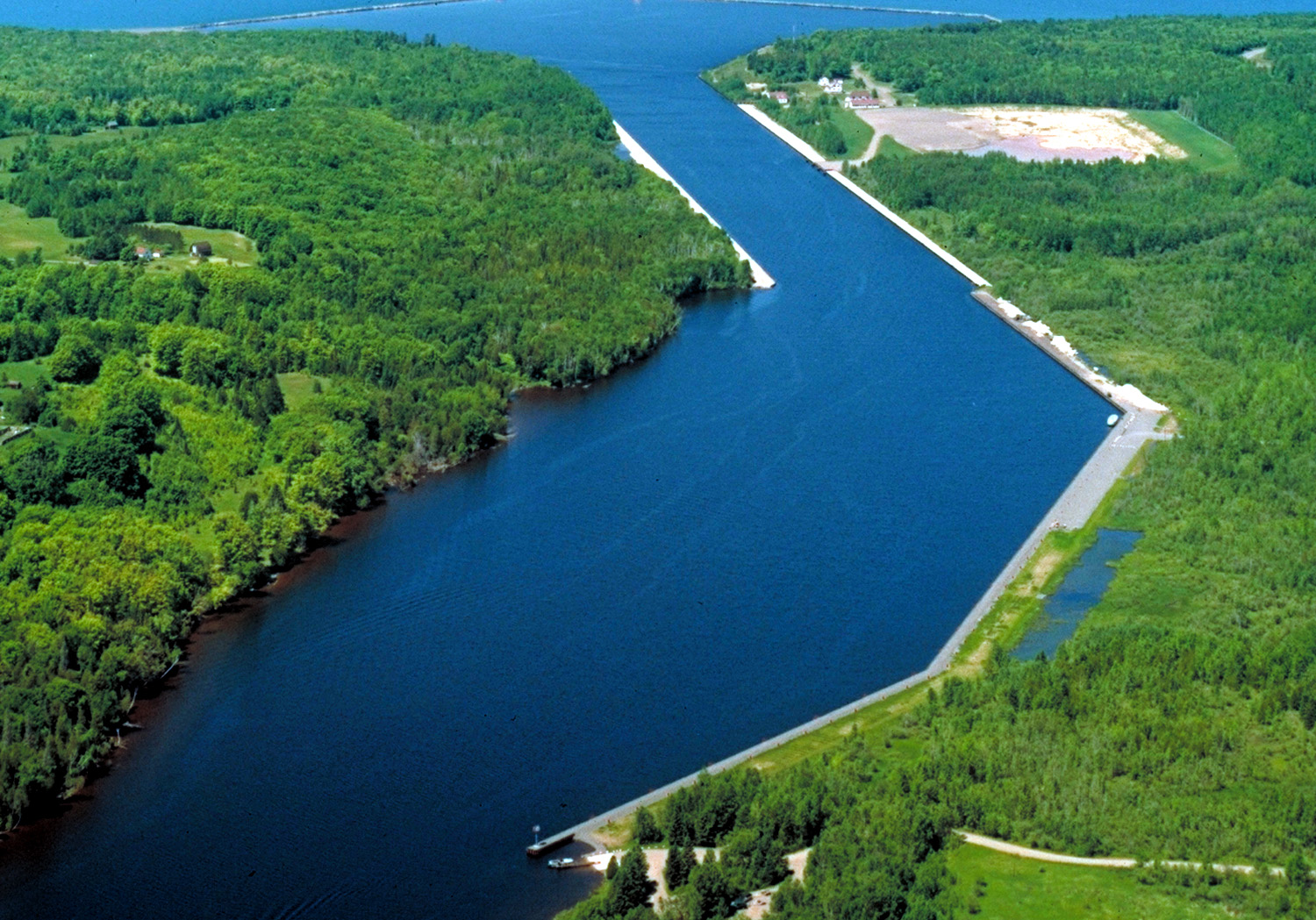 North end of the Keweenaw Waterway on the Keweenaw Peninsula in Lake Superior, Michigan, USA. F.J. McClain State Park lies on the lake on the right side of the picture.